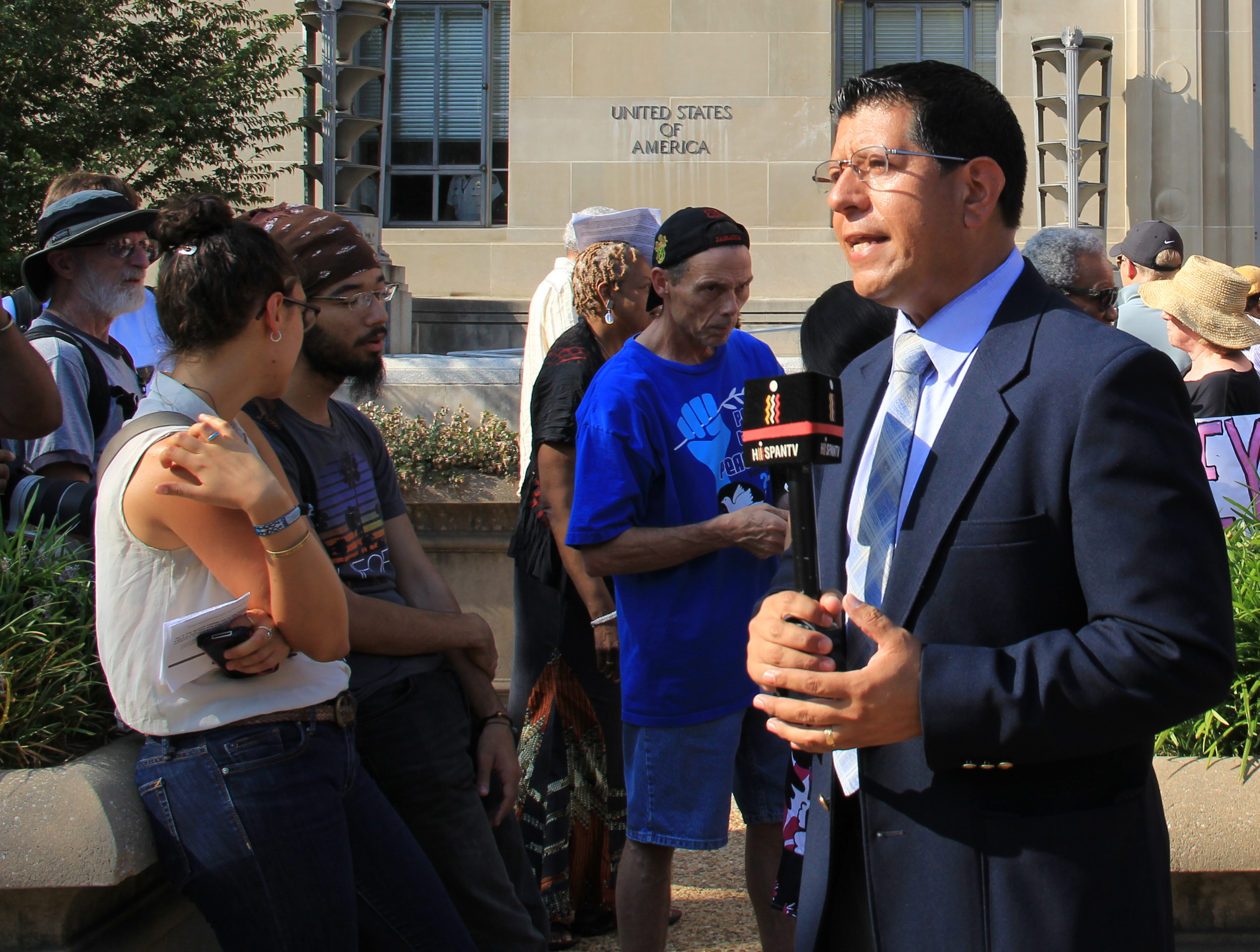 Ferguson and Beyond - Demonstration at the Justice Department, Washington, D.C.